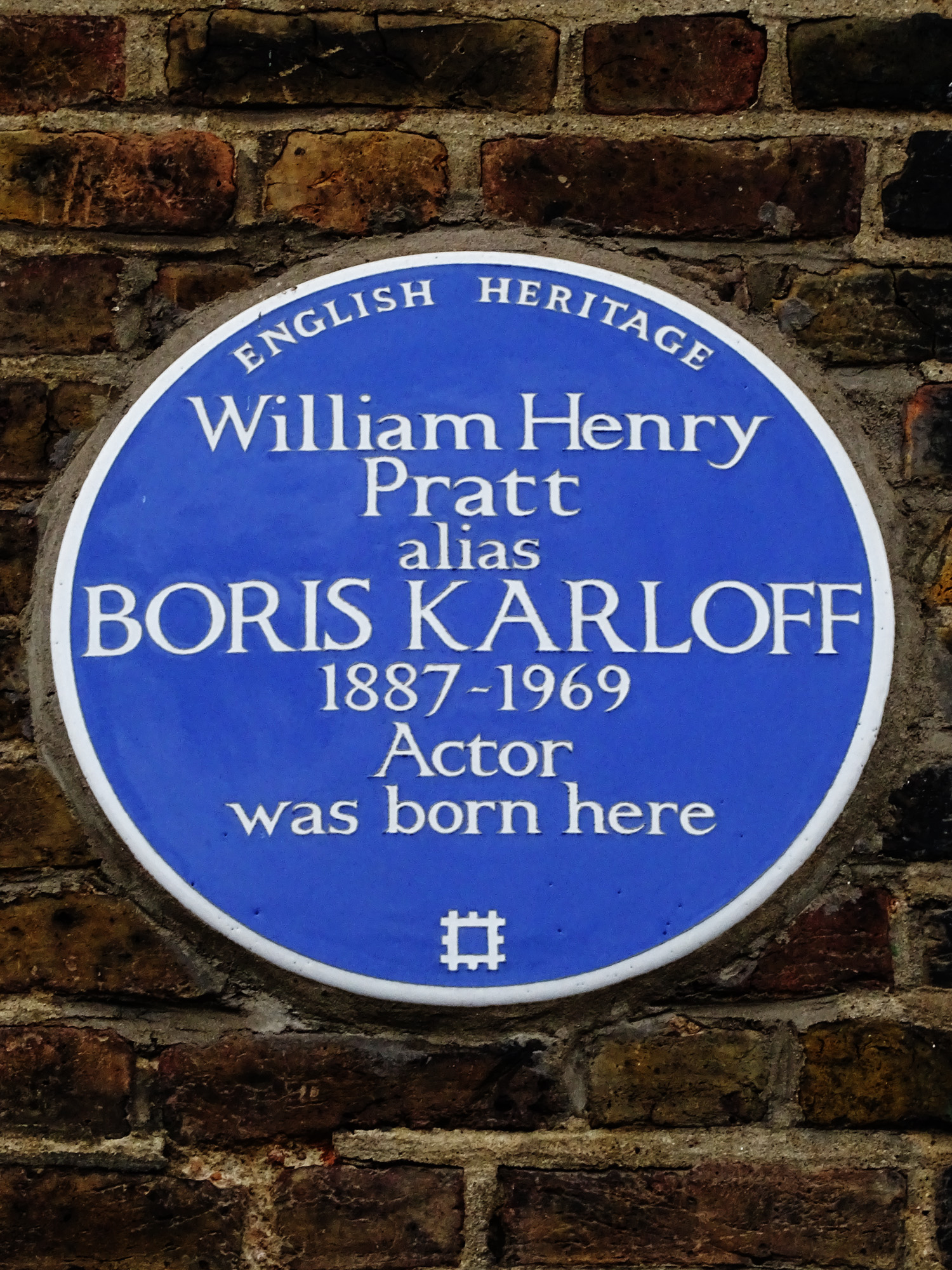 Blue plaque erected in 1998 by English Heritage at 36 Forest Hill Road, Peckham Rye, London SE22 0RR, London Borough of Southwark